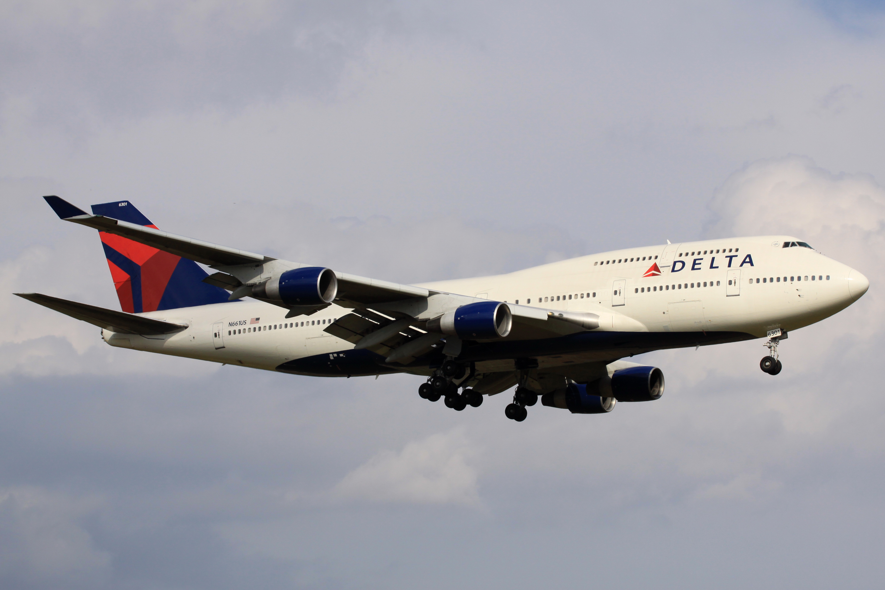 Final approach to Runway 16R at Narita International Airport. Boeing 747-451, c/n:23719